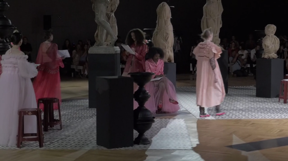 Various puffy pink dresses on the 'Fashion in Motion' show catwalk at the Victoria & Albert Museum opening festival 'Reveal'